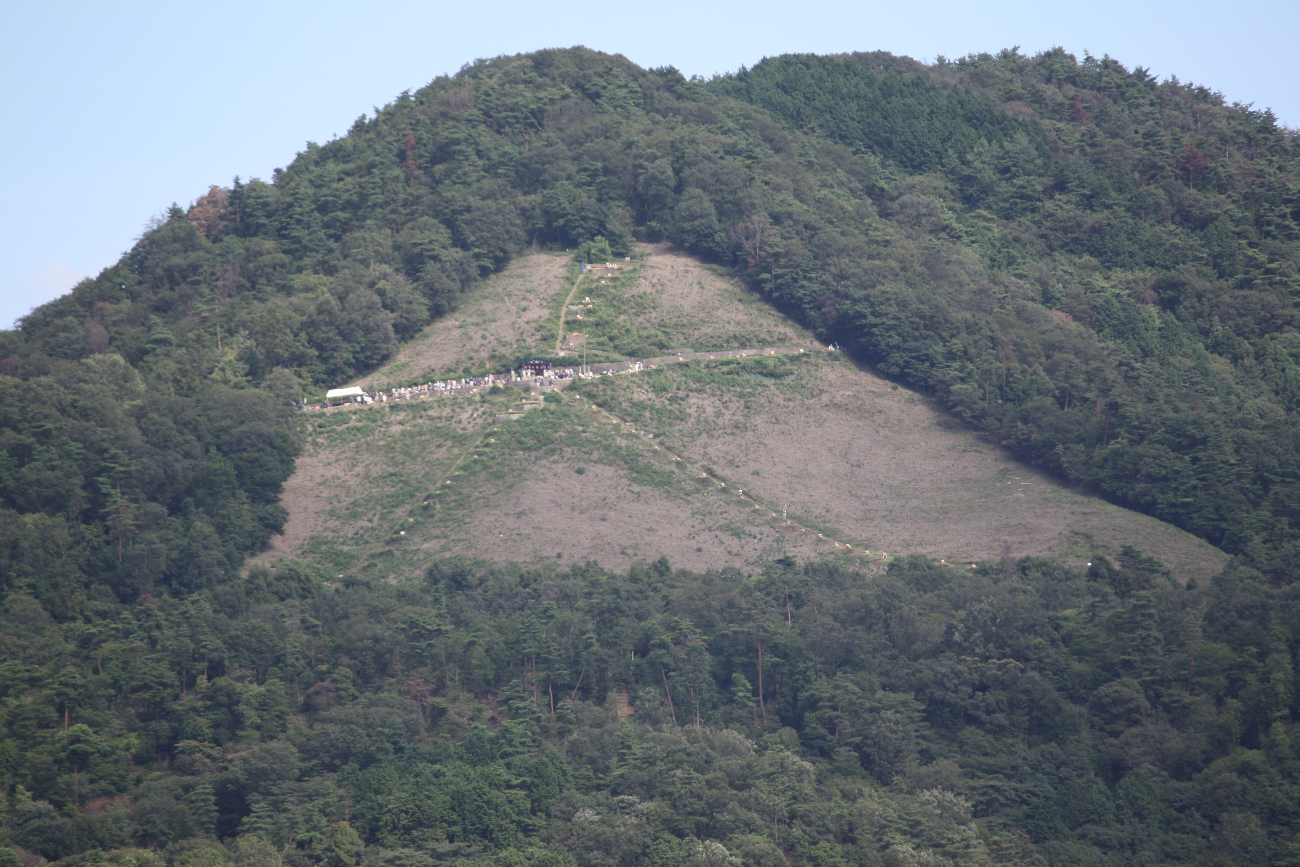 Gozan-no-okuribi Letter 大 in the afternoon, Sakyo, Kyoto, Japan